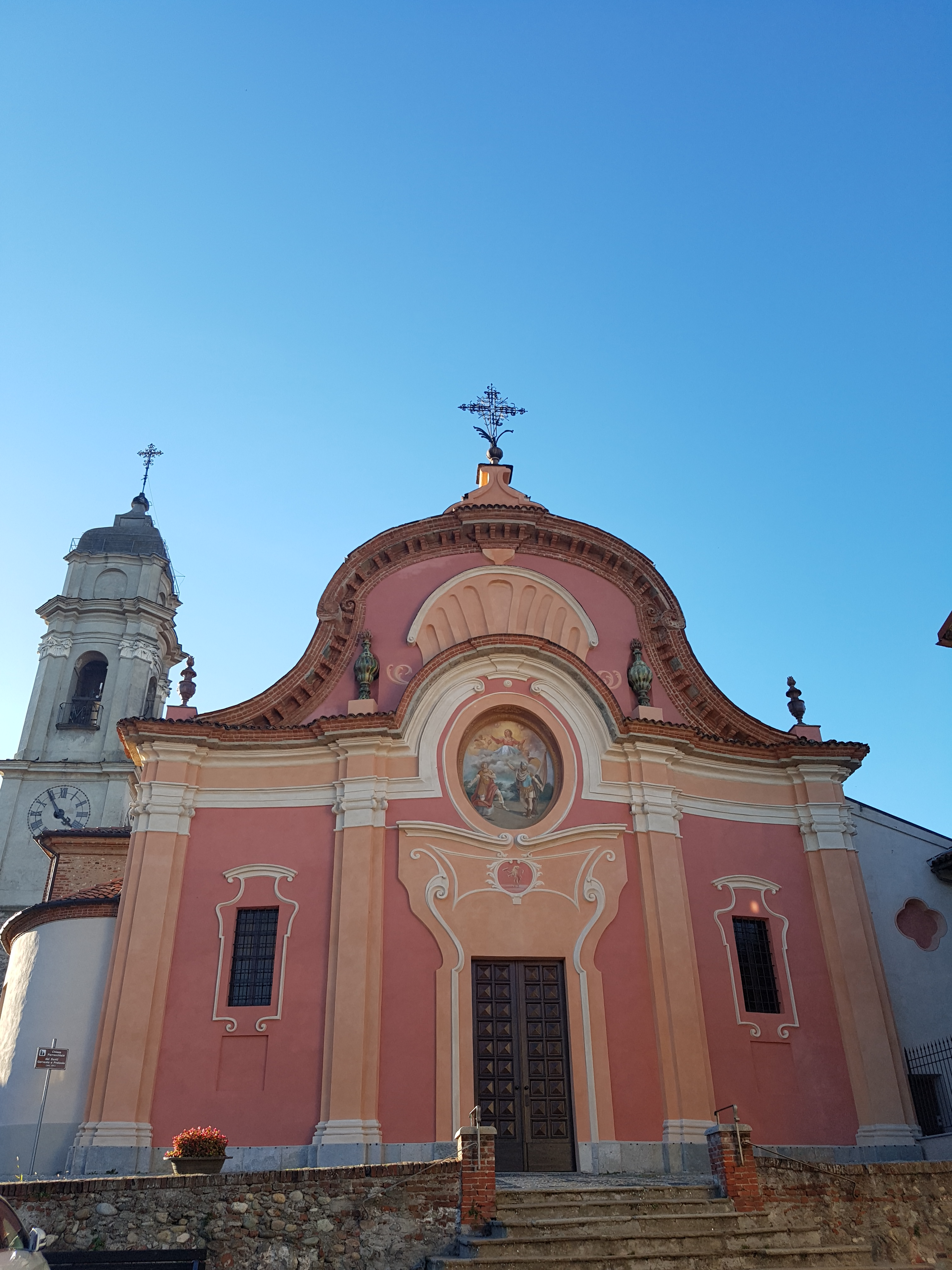 Parish church of Saint Gervasius and Saint Protasius, Mazzè, Northern Italy